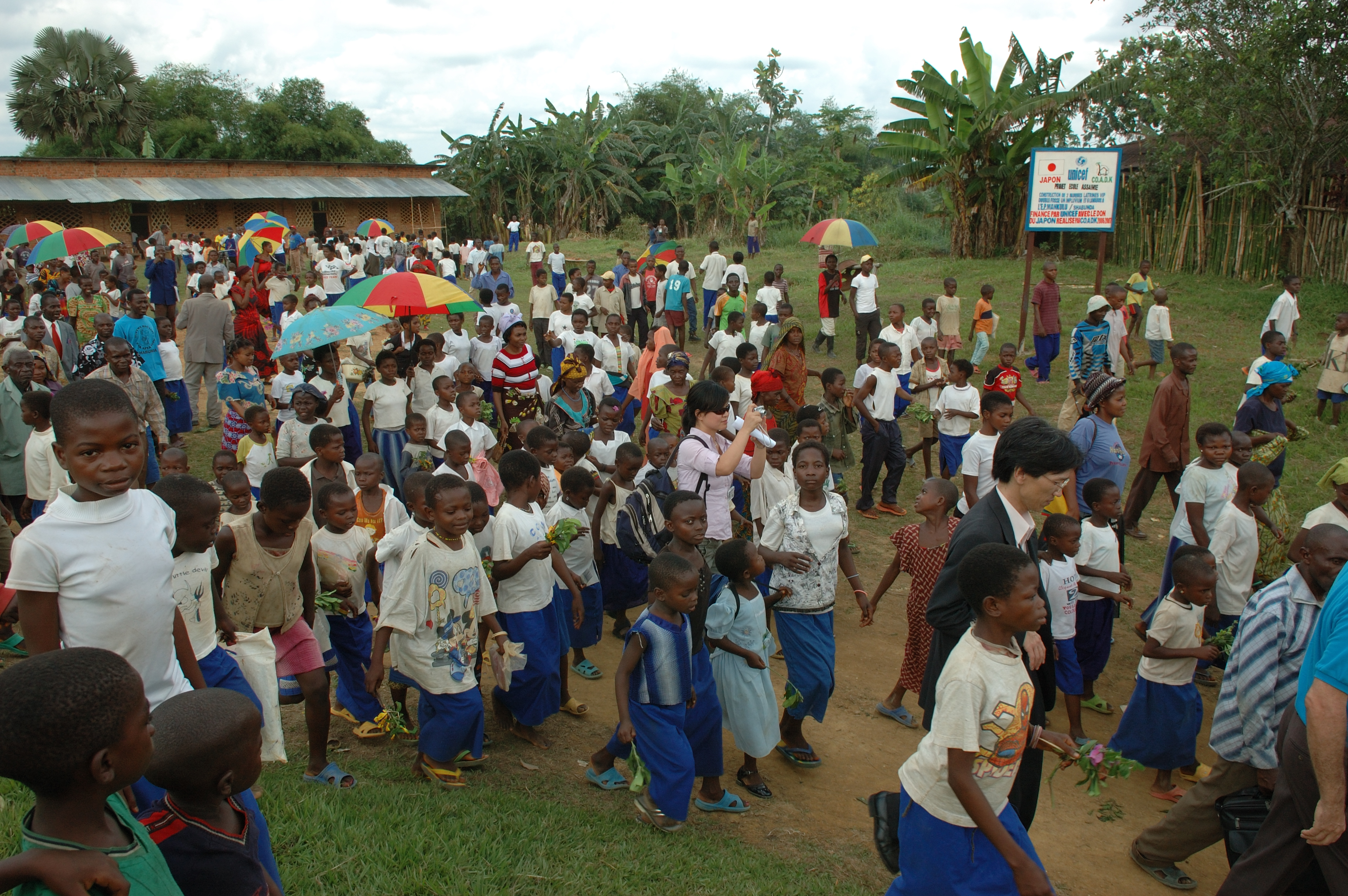 We flew into the dirt strip in Shabunda, South Kivu. The town is almost completely cut off. The roads from Bukavu and Kindu have been eaten up by jungle and are infested with Rwandan Hutu rebels. They don’t get so many visits. The Japanese ambassador was welcomed as the most important since Albert the first, king of the Belgians visited in 1958. We were here to visit the Ecole Assaini projects put in place by the nuns and a local NGO in seven local schools. From our arrival at the strip we swept along in a wave of humanity, saluting policemen, RPG toting soldiers and singing children. The emotion was intoxicating. Hundreds of children were singing Karibu in harmony and waving cut flowers.